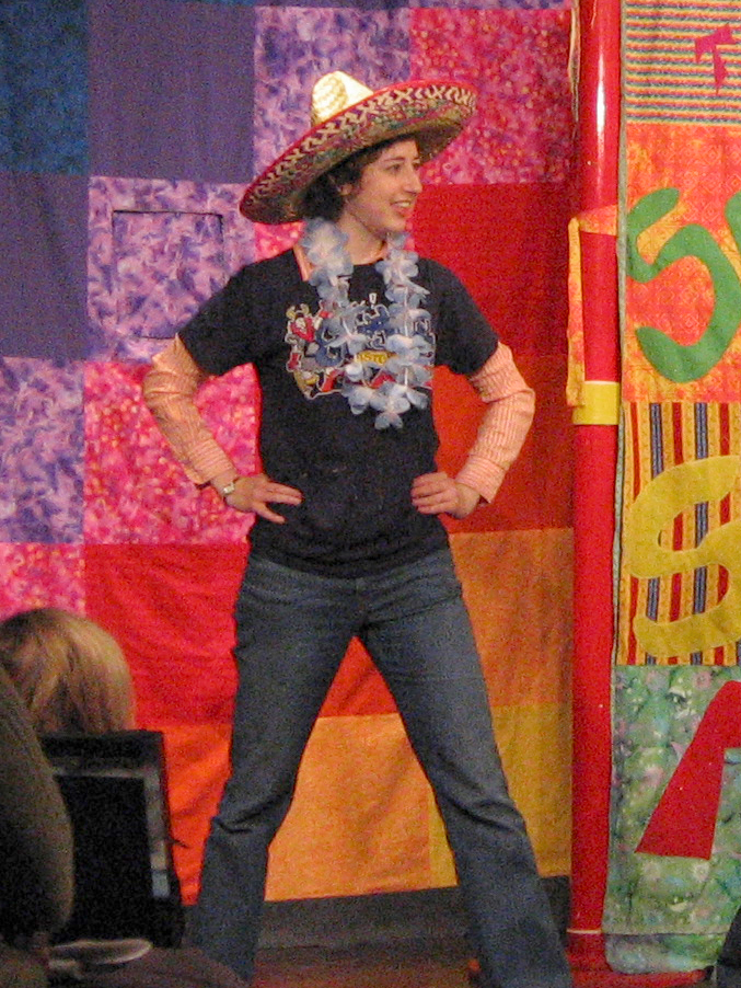 American actress and comedian Kristen Schaal, performing in the Striking Viking Story Pirates, New York City.